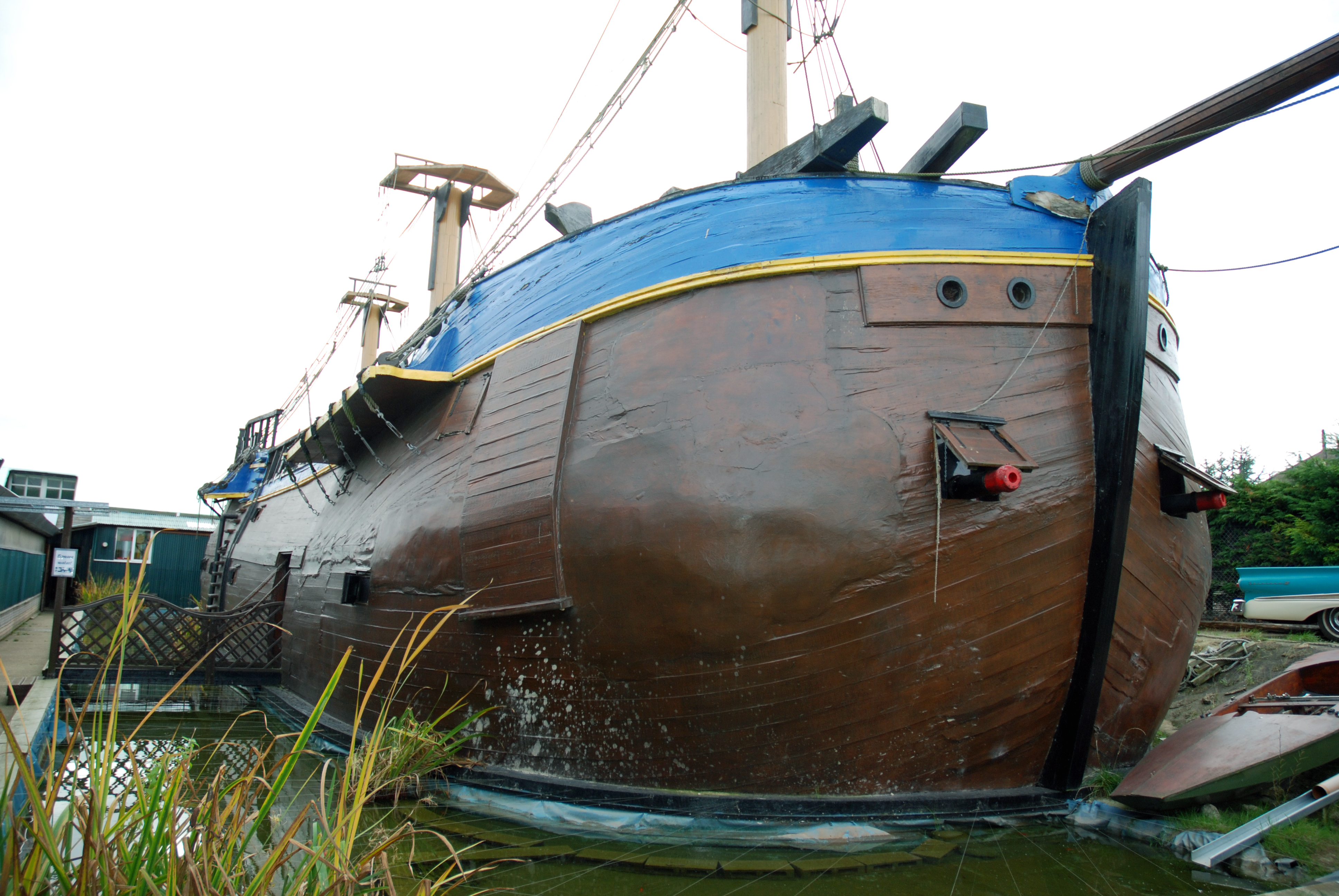 Stondon Transport Museum Oct 2007